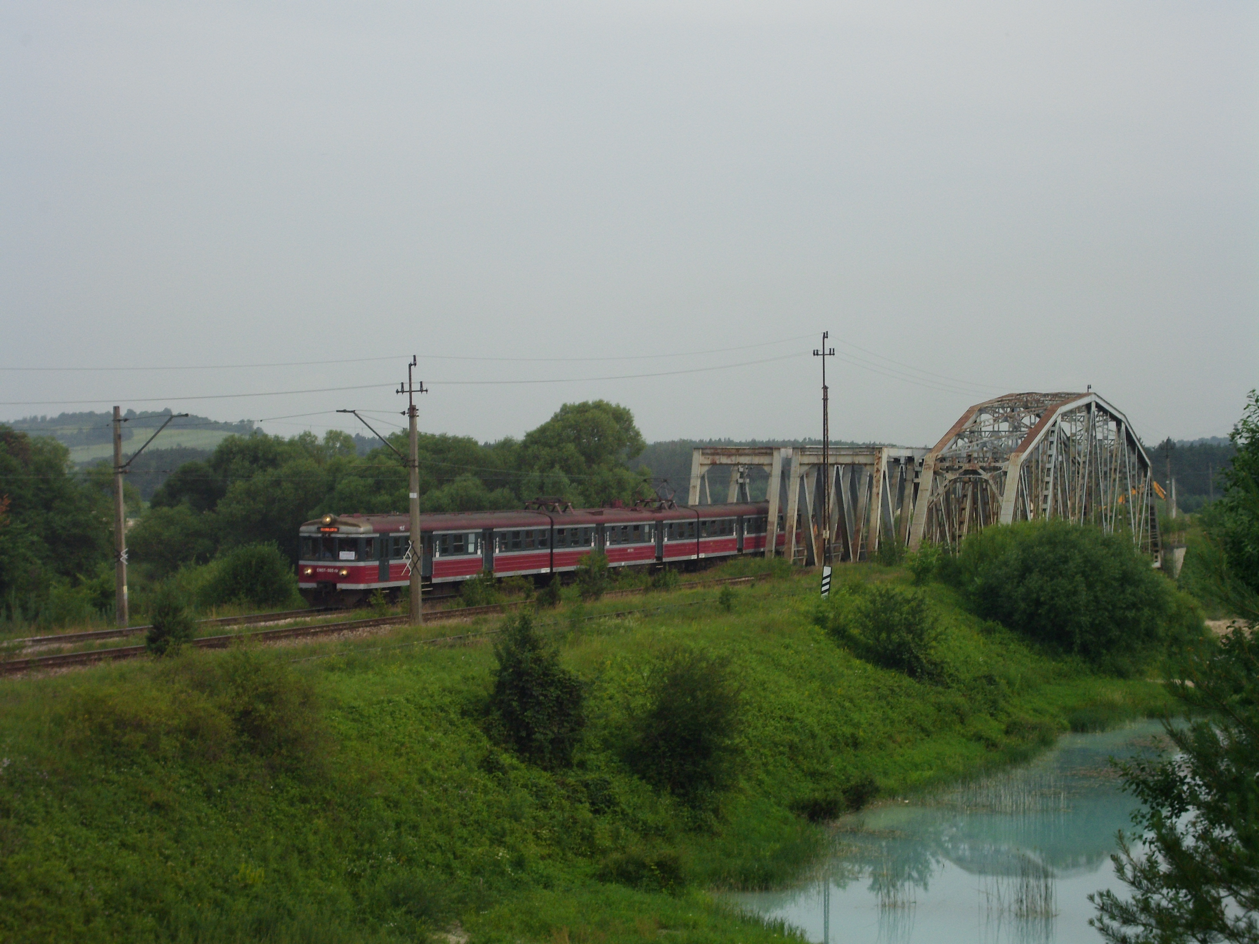 Electric unit EN57-005rb crossing a bridge over the Czarna Nida river on a railway from Sitkówka-Nowiny to Busko Zdrój in Poland. The train was organized for railfans - there are no regular passenger trains on this route.